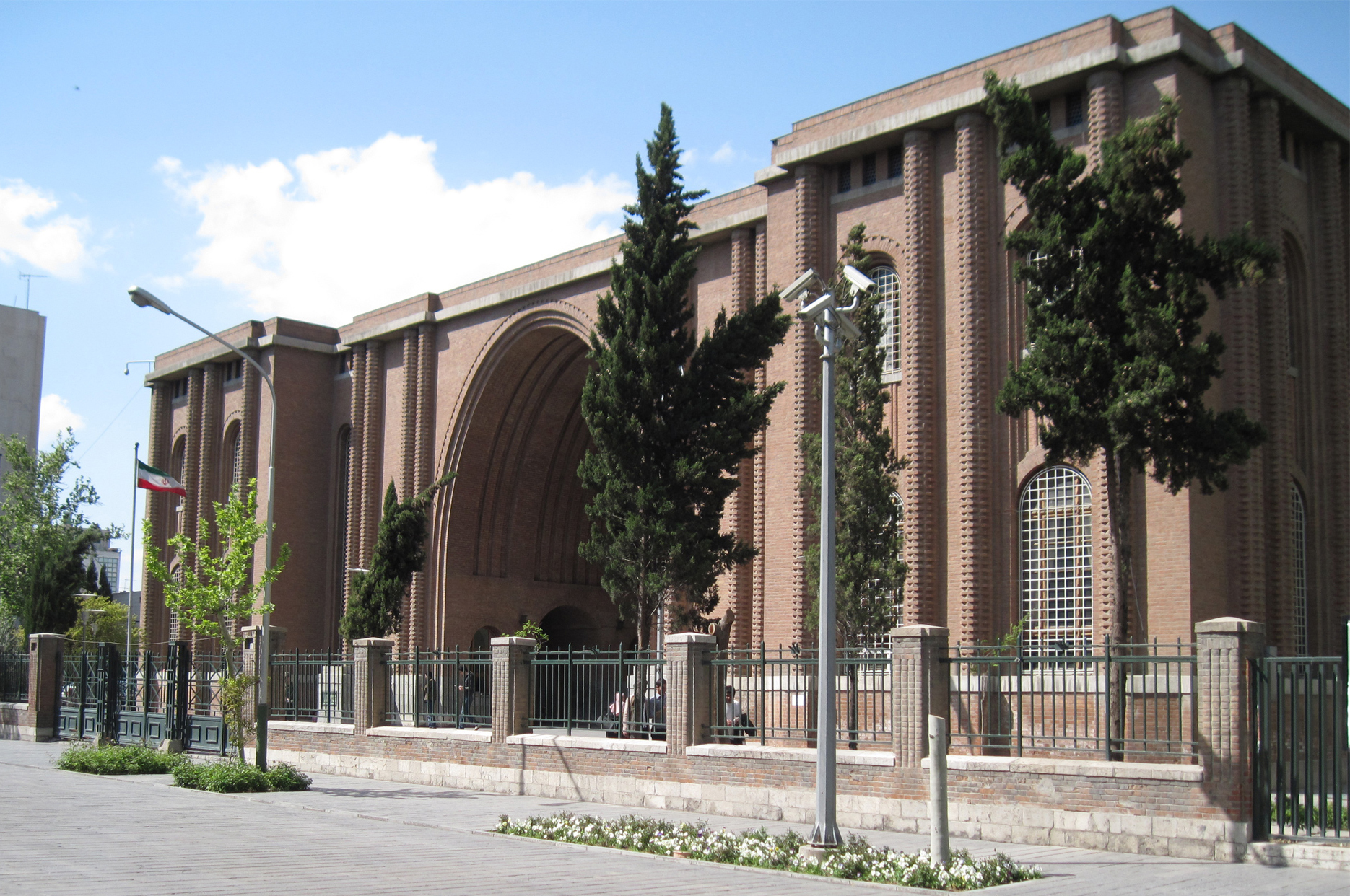 Museum of ancient Persia, Tehran.